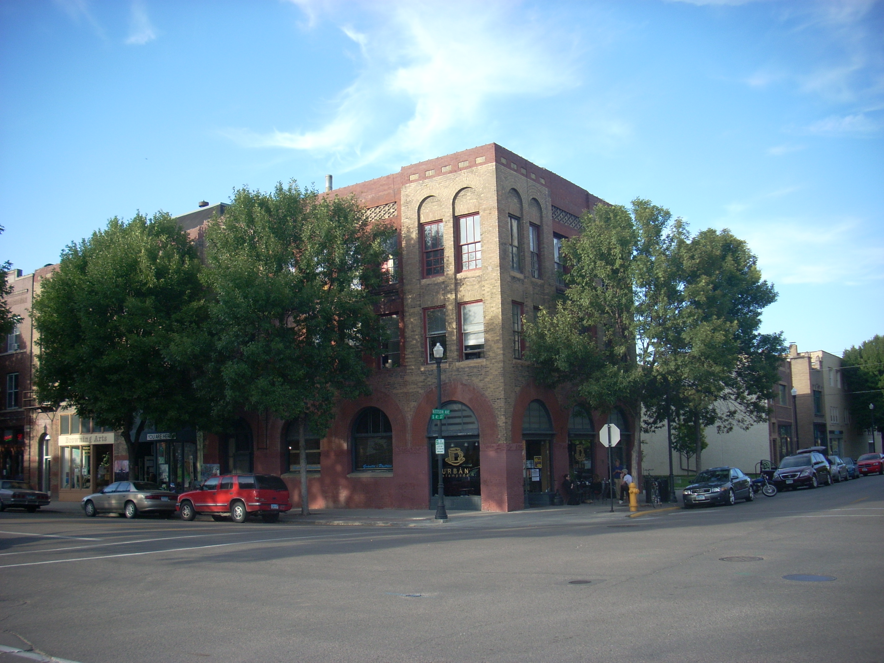 Odd Fellows Block, Downtown Grand Forks, ND. Currently housing the Urban Stampede coffee shop, art galleries and studios, and apartments.